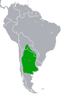 Lagostomus maximus range map Source